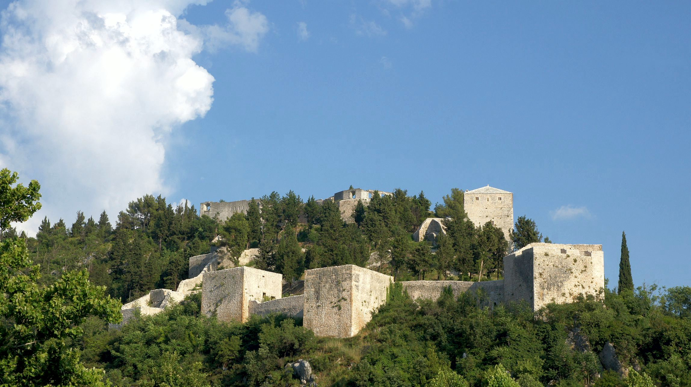 Stolac castleHrvatski: Stari grad iznad Stoca